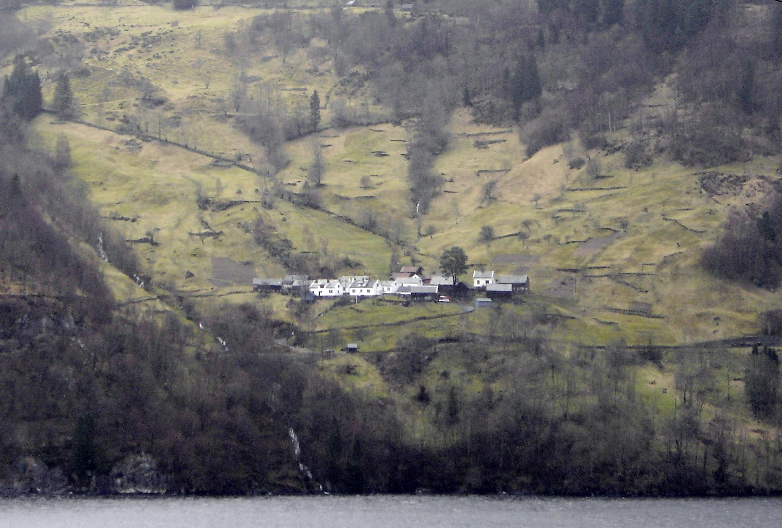 This picture of Havretunet or Havråtunet was taken across the Sørfjord, near Romslo; Date of picture is March 13, 2007 by Kevin S. Havre; Great-Grandson Of Michel or Mikjel Olsen Havre who was born in Havretunet (spelling is a bit of a controversy!), 17 January 1836.